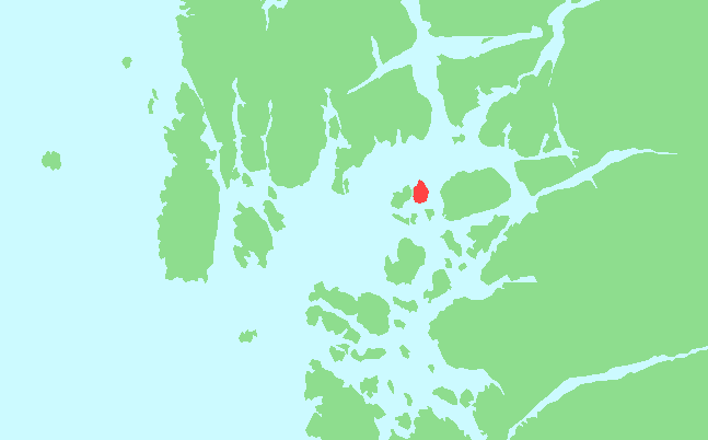 Locator map of Bjergøy, Rogaland, Norway